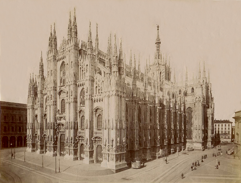 Giacomo Brogi (1822-1881): Milan. The cathedral", ca. 1870. Catalogue: # 3818. Original caption: "3818" — removed caption